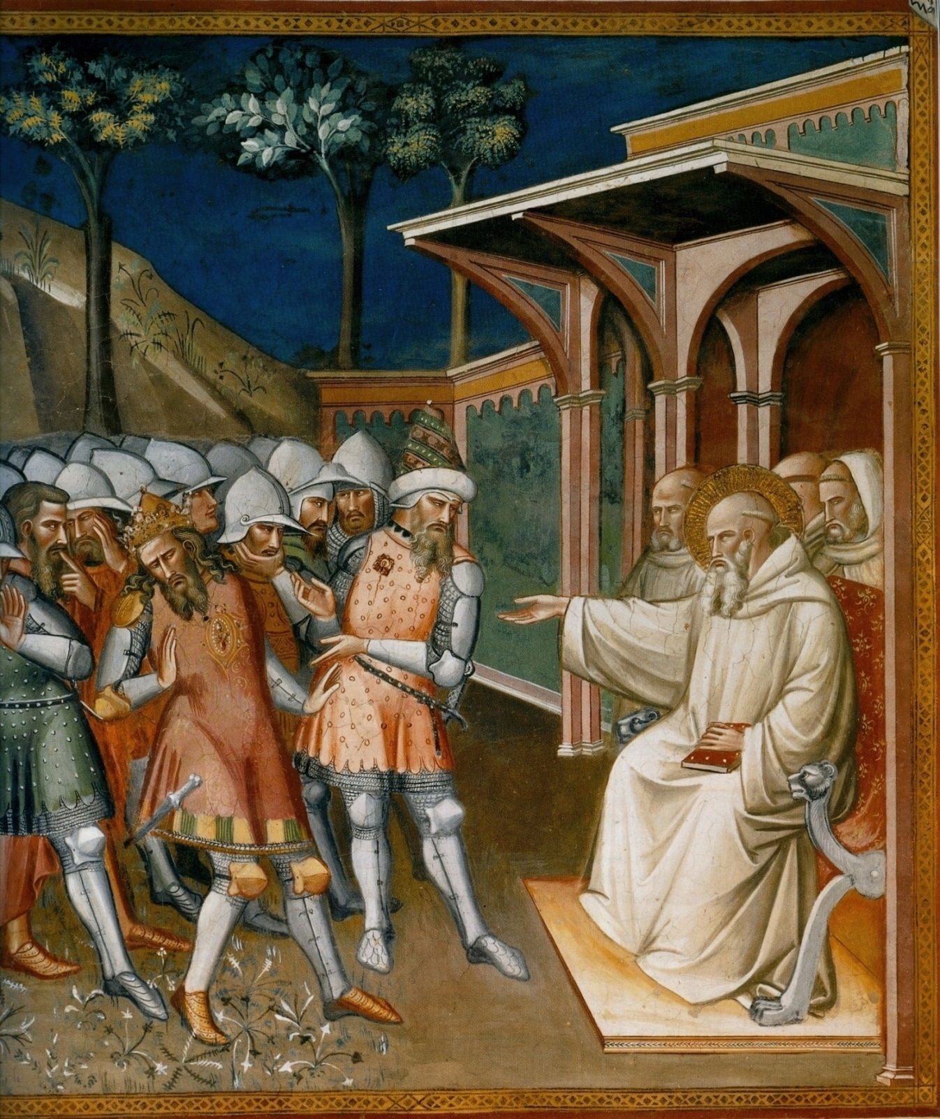 Saint Benedict Stories by Spinello Aretino